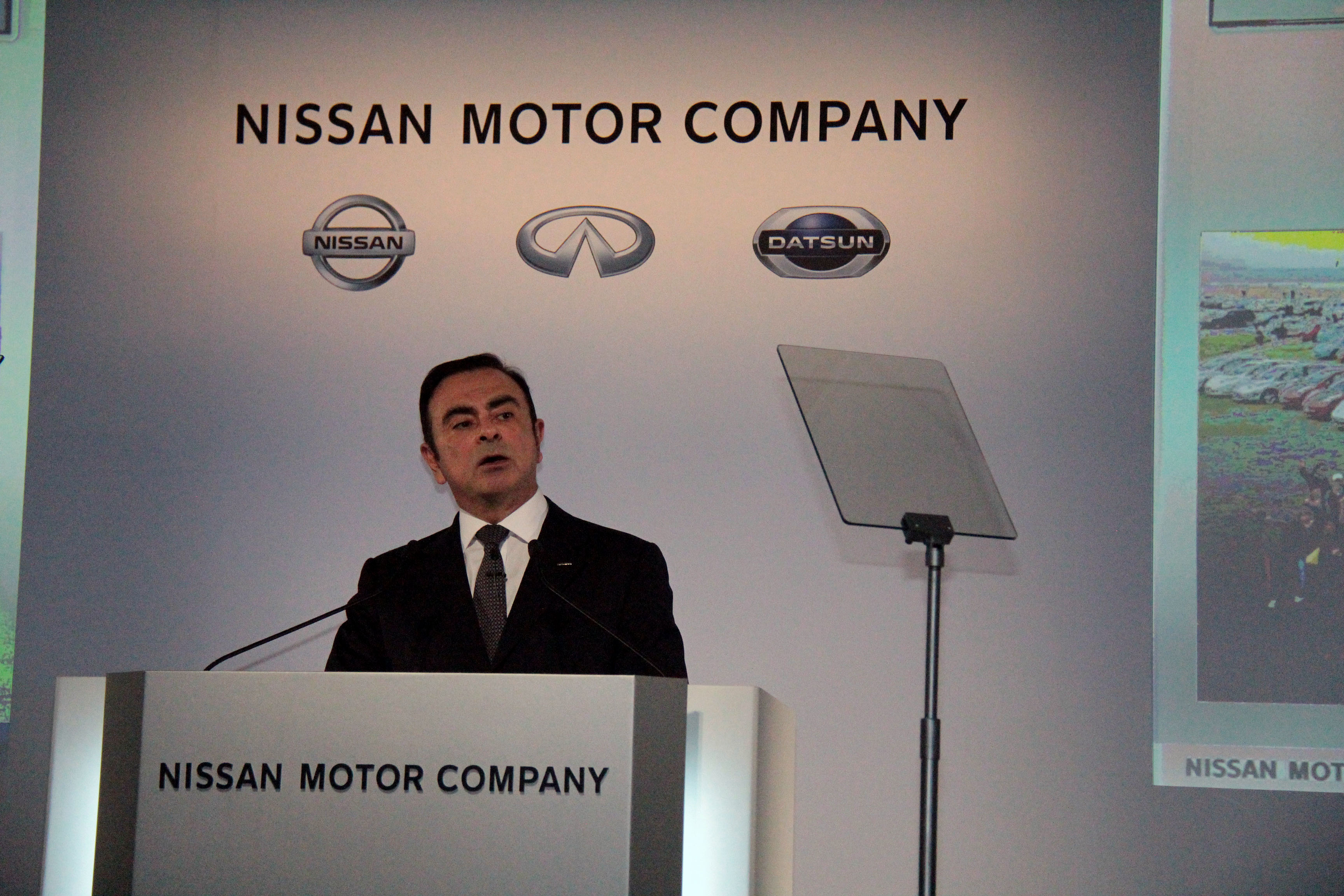 Carlos Ghosn at the 2013 Nissan earnings press conference inYokohama. Picture by Bertel Schmitt